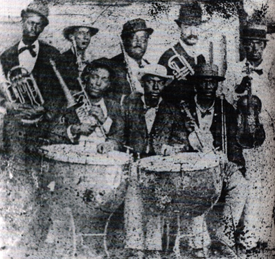 Flor de Cuba (Flower of Cuba) Orchestra